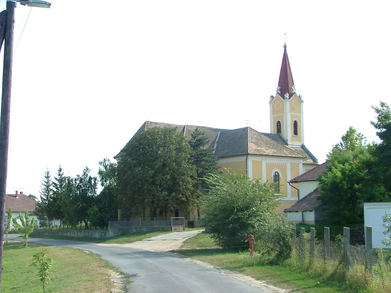 Roman catholic church in Koroncó